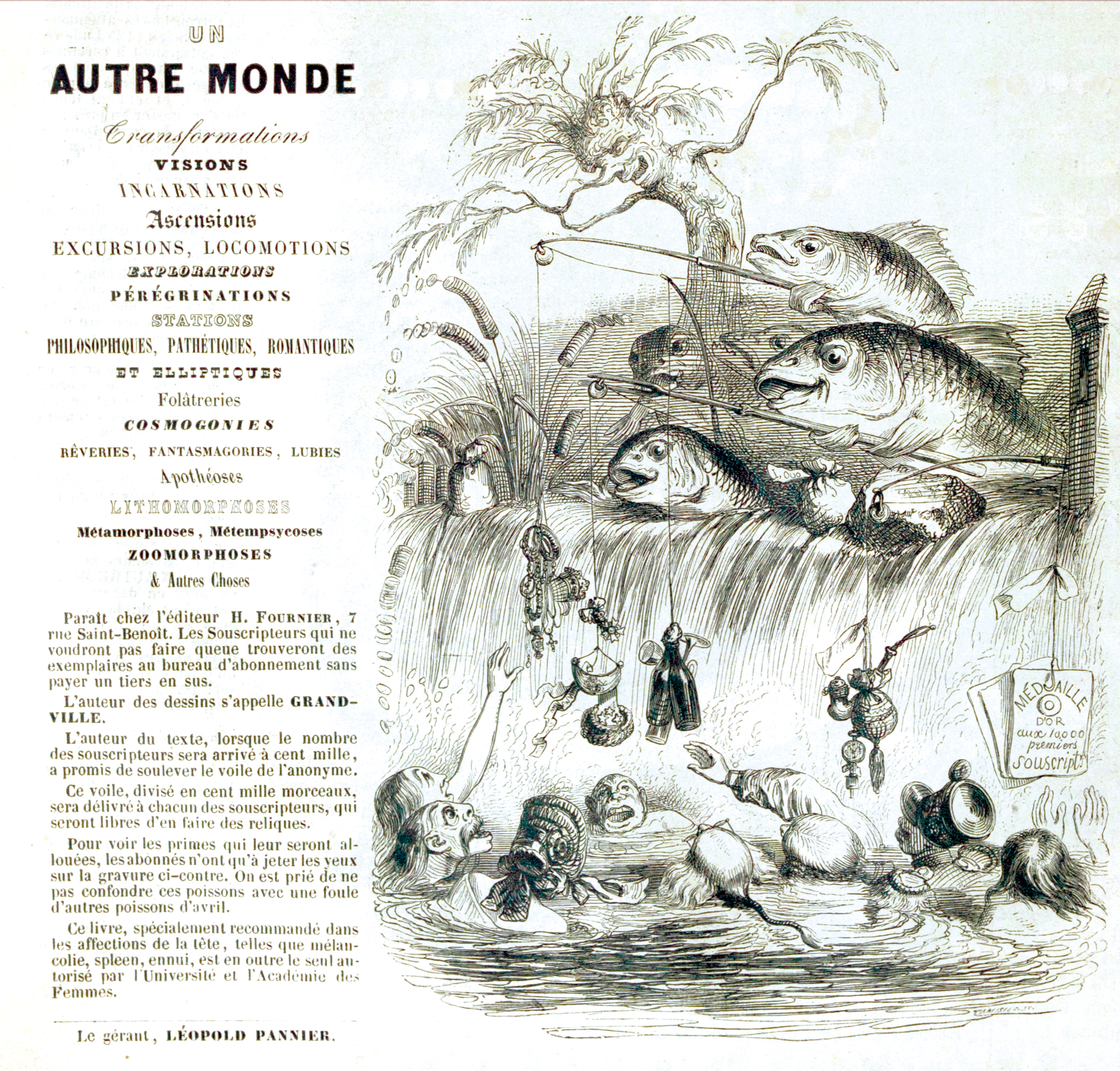 Crop from Le Charivari.